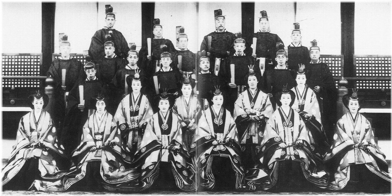 All former Japanese Imperial Family members gathered at the Kyoto Imperial Palace. They're called the Kyū-Miyake (旧宮家, "former Miyake"), also known as the Old Imperial Family (旧皇族). They left the imperial family due to the American Occupation Authorities in October 1947.